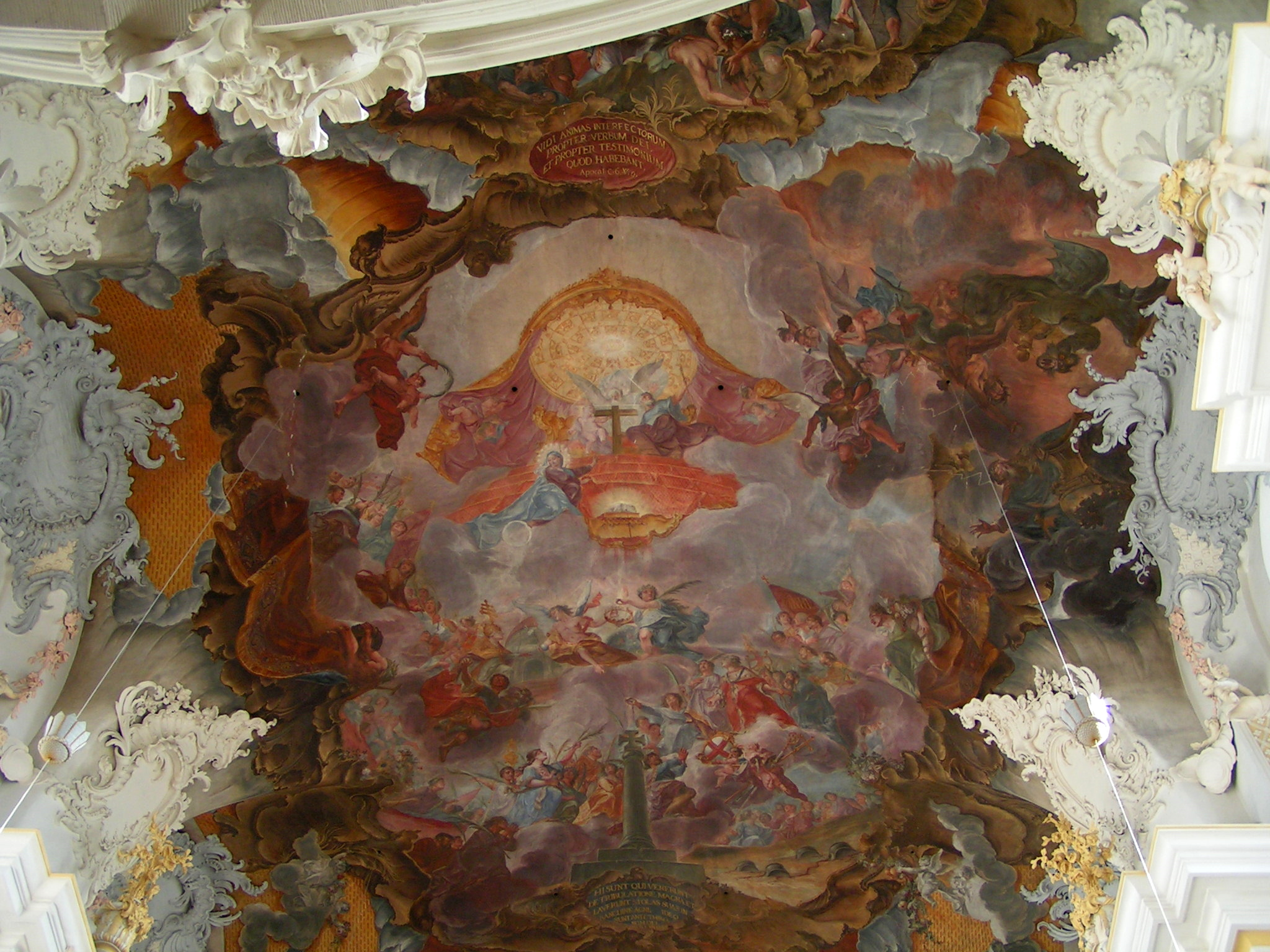 St. Paulin, Trier, Germany